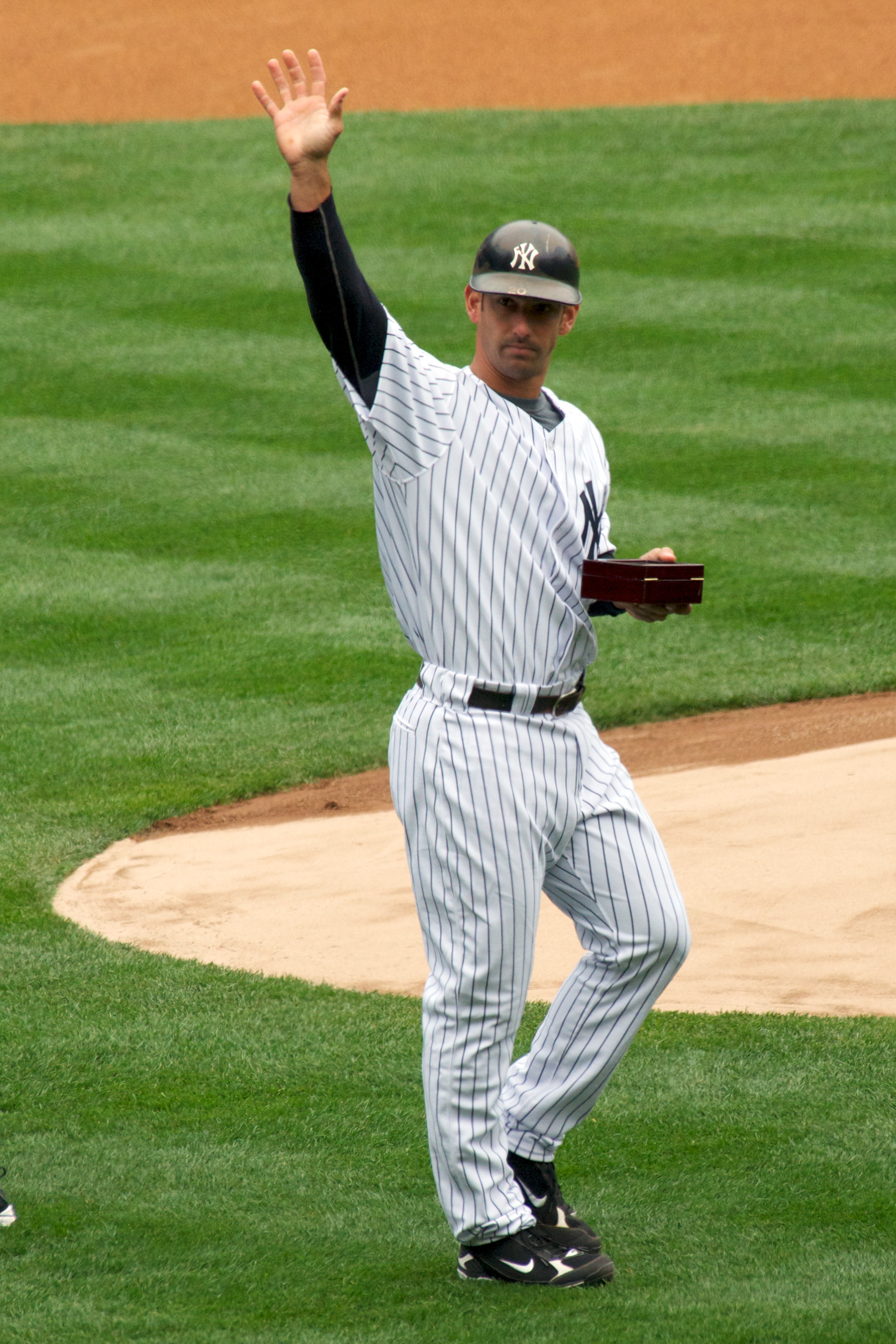 Jorge Posada receives his 2009 World Series championship ring prior to a game against the Los Angeles Angels of Anaheim on April 13, 2010